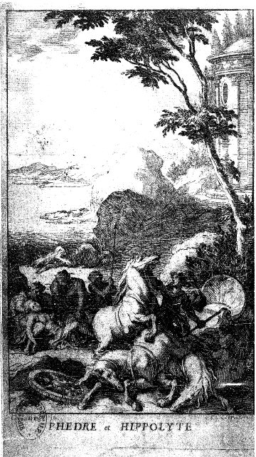 Title page from 1678 edition of Phedre et Hippolyte by Jean Racine